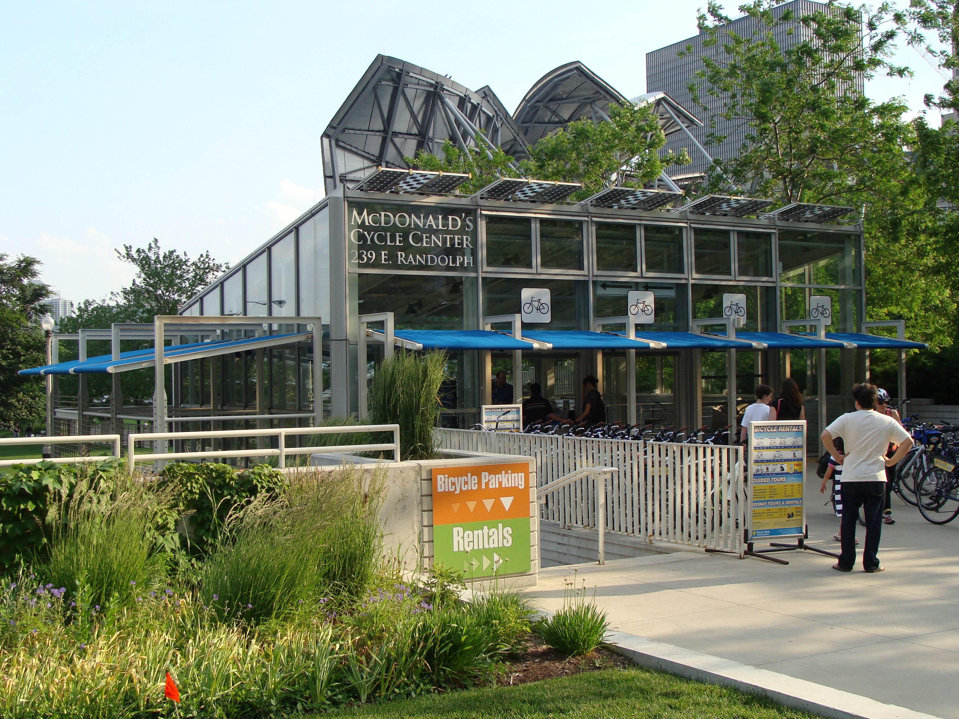 Front of McDonald's Cycle Center